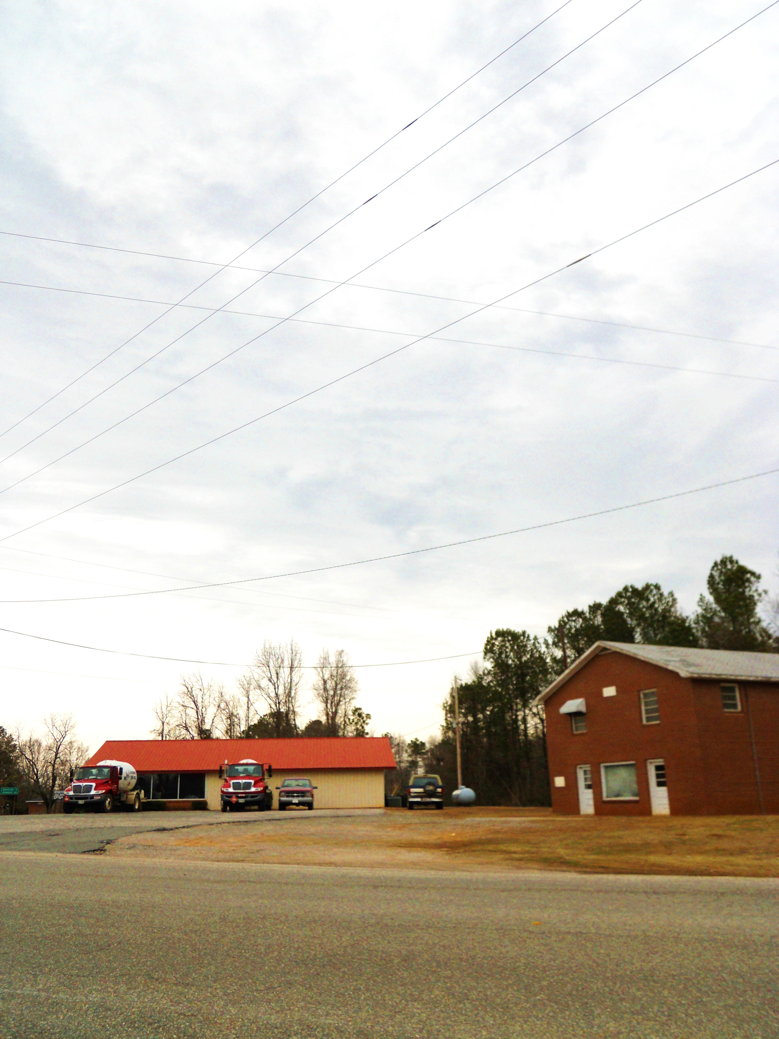 This is a photo of New Site, Alabama.